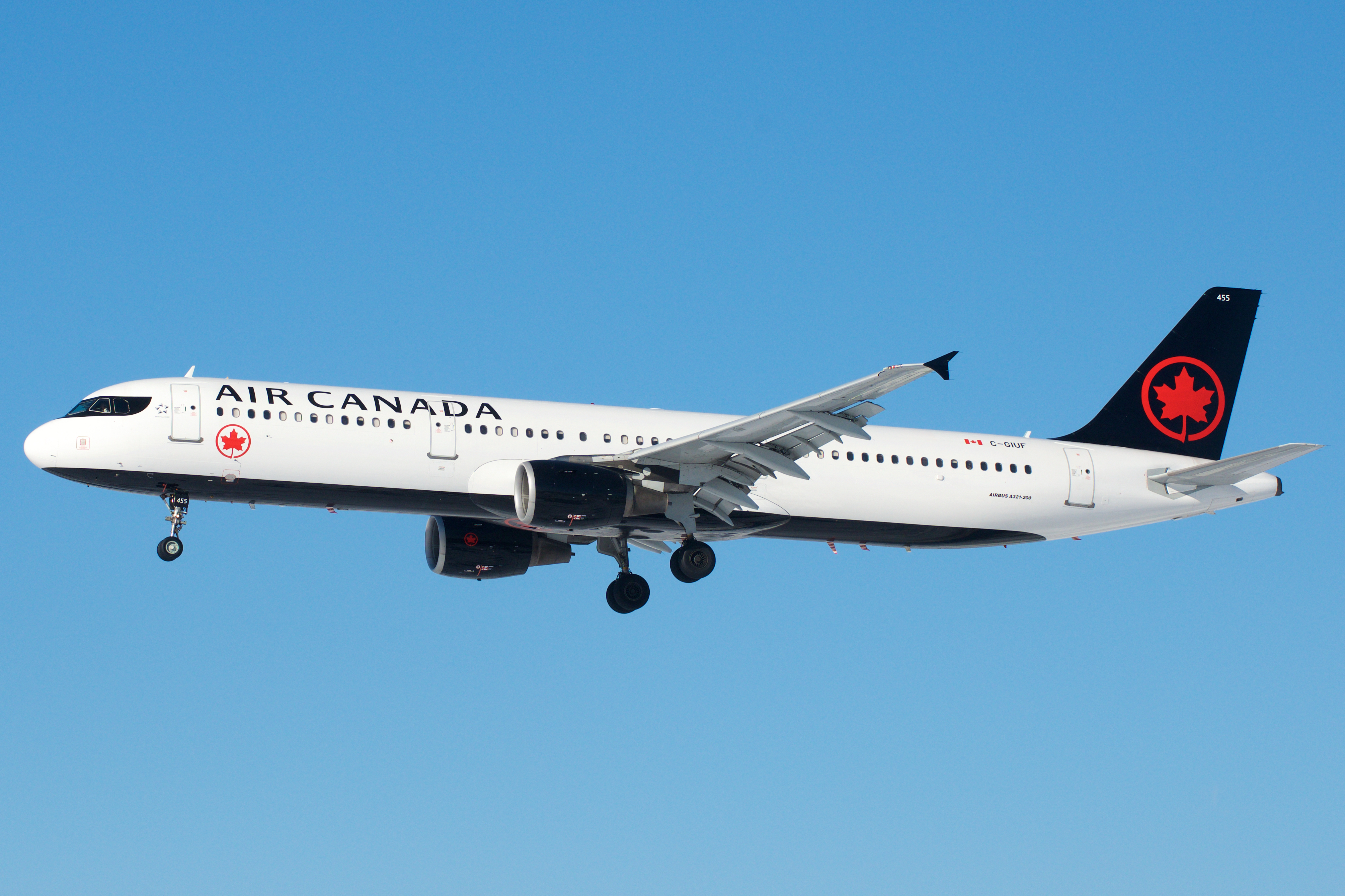 Racoon Fin 455 close final YYZ.